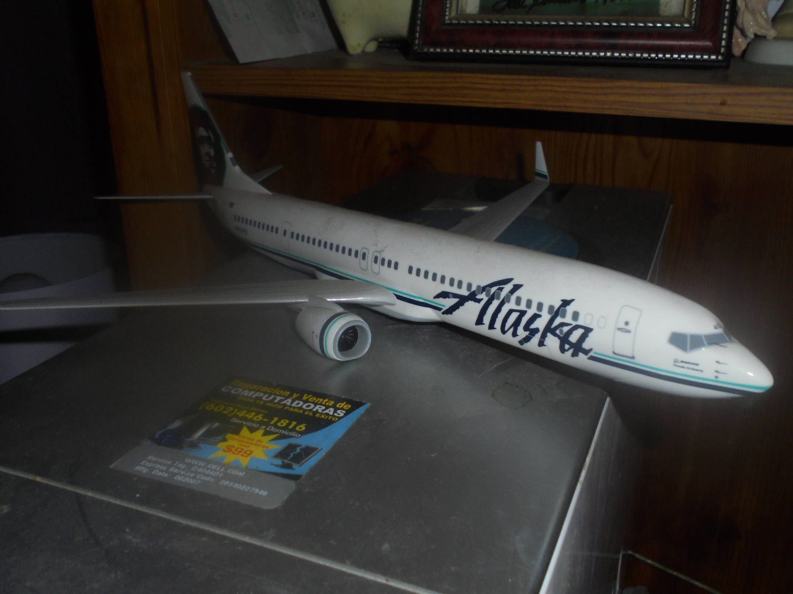 Plane model